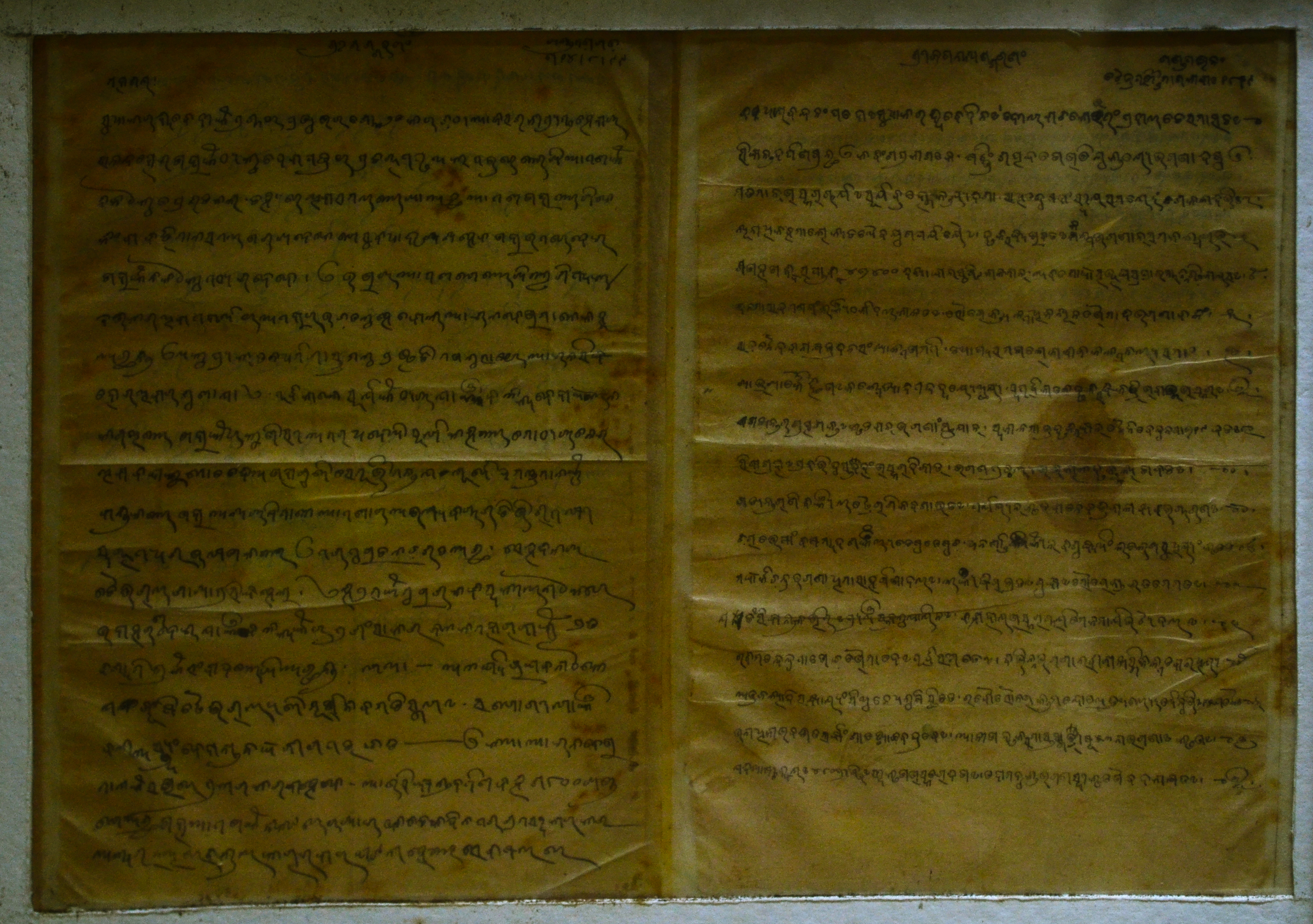 Original manuscript of Siddhanta Darpana authored by Pathani Samanta, Odisha state museum, Bhubaneswar 2013